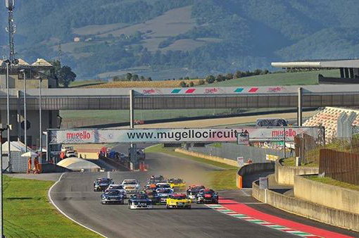 Mitjet Italie